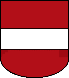 Blazon of Bichelsee-Balterswil, Canton of Thurgau, SwitzerlandEsperanto: Blazono de Bichelsee-Balterswil, Kantono Turgovio, Svislando